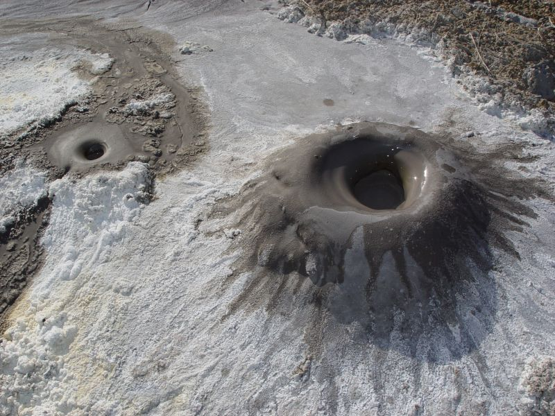 Cold Mud Pots near Glen Blair town site, Fort Bragg, CA.